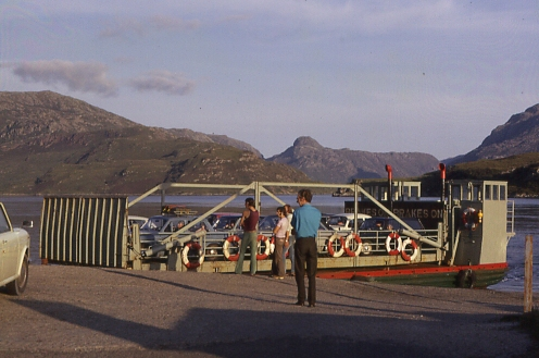 MV Queen of Kylesku, a former Kylesku ferry